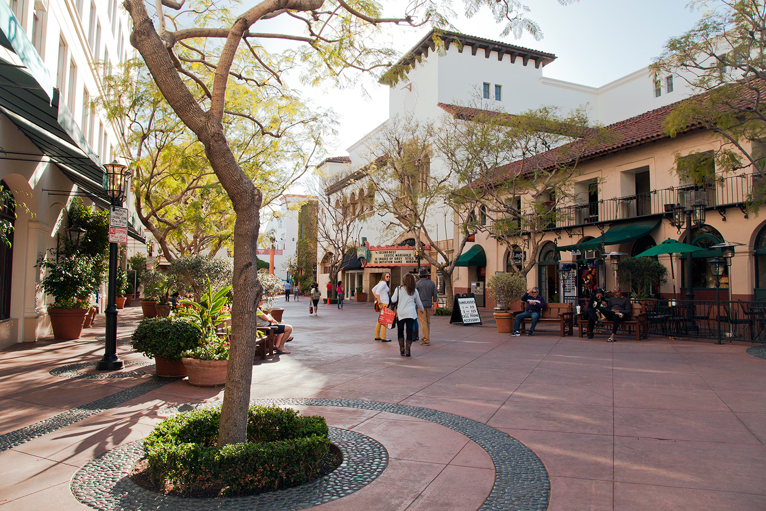 Paseo Nuevo Shopping Center near State Street in Santa Barbara